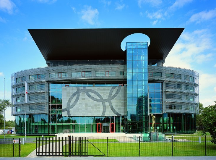 Olympic Center in Warsaw